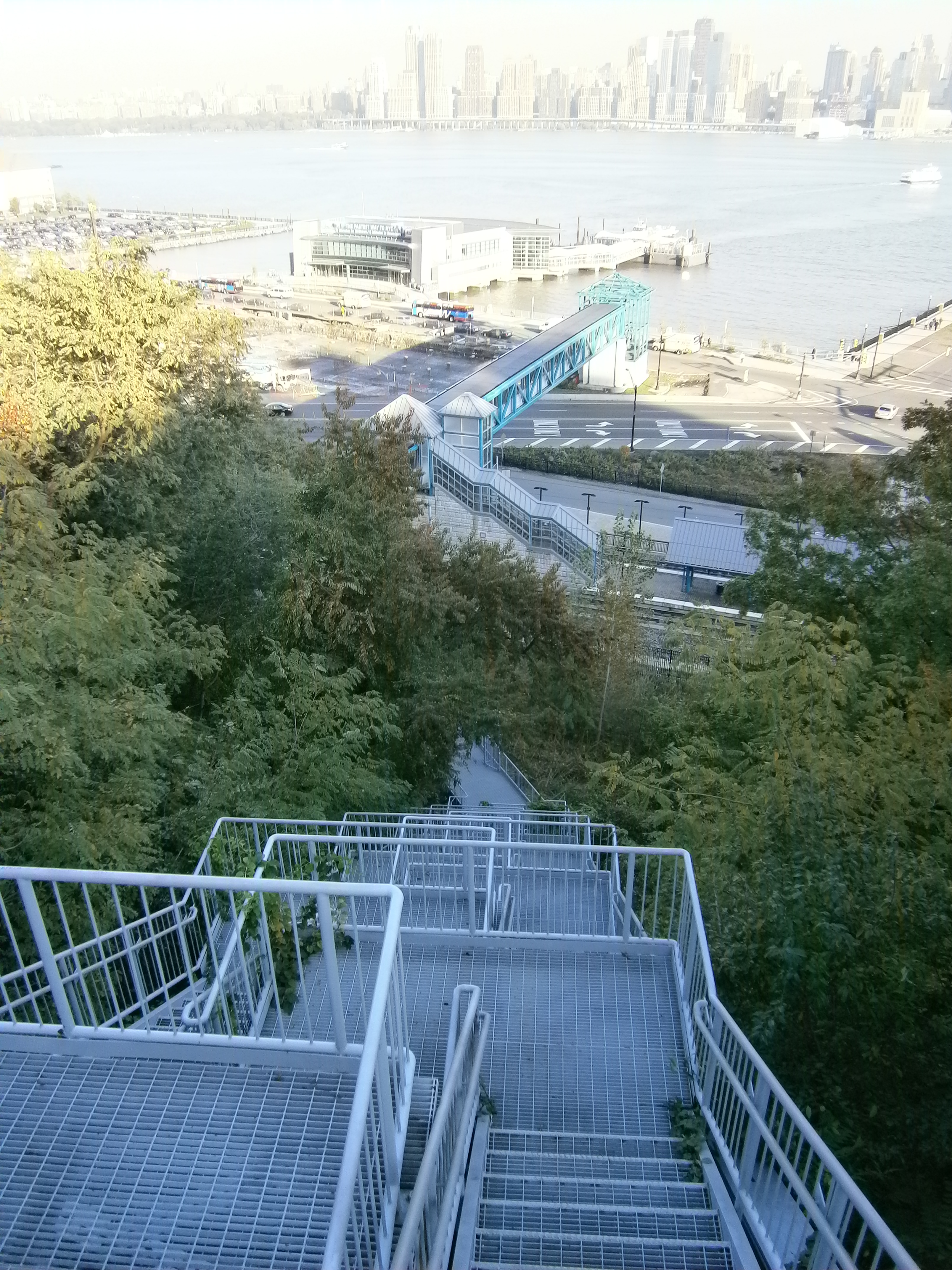 Weehawken Port Imperial as seen from atop Hudson Palisade